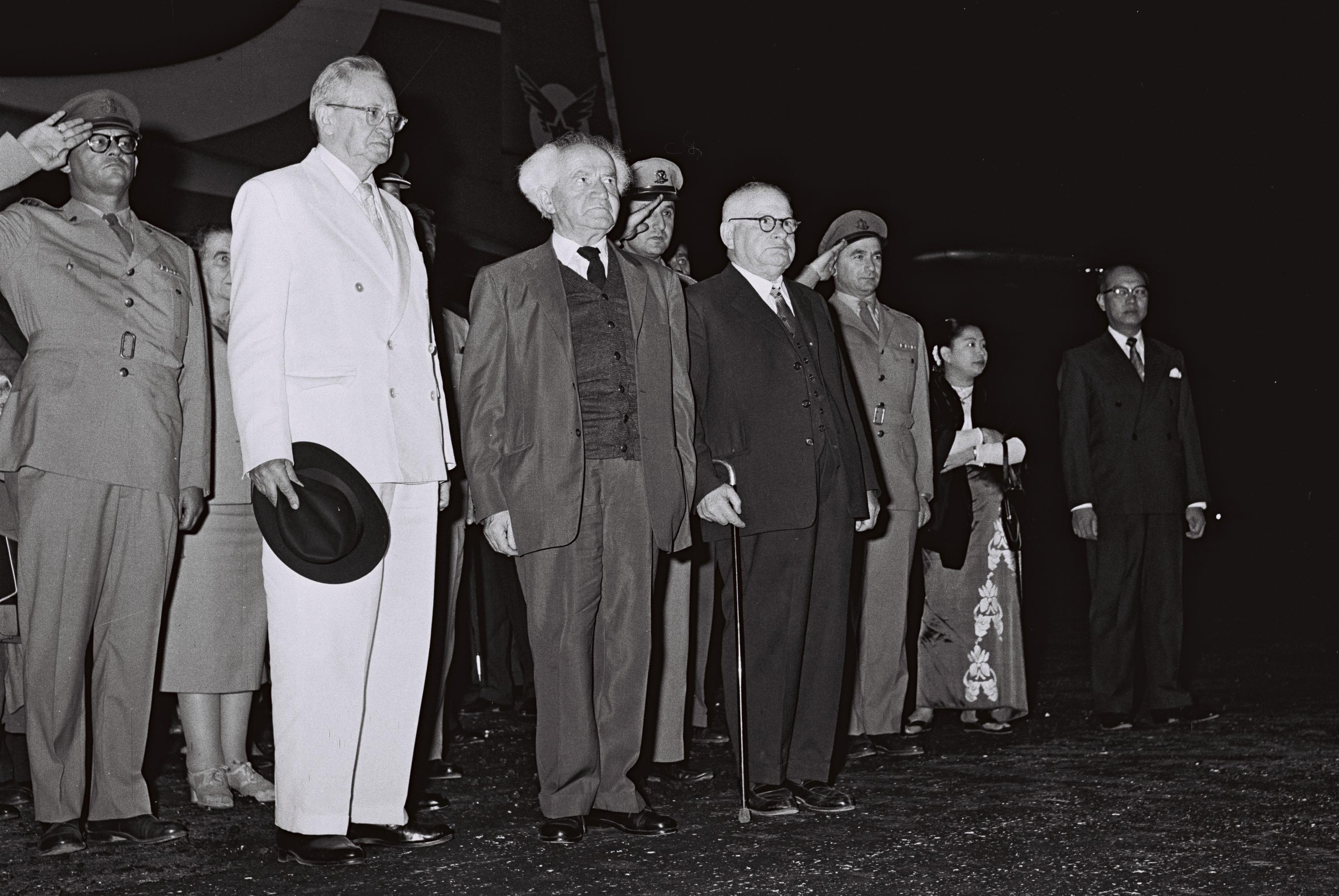 PRES. BEN ZVI AT LYDDA AIRPORT ON HIS RETURN FROM A STATE VISIT TO BURMA, STANDING AT ATTENTION FOR THE NATIONAL ANTHEM, WITH PM BEN GURION, RAV ALUF LASKOV & NIR.